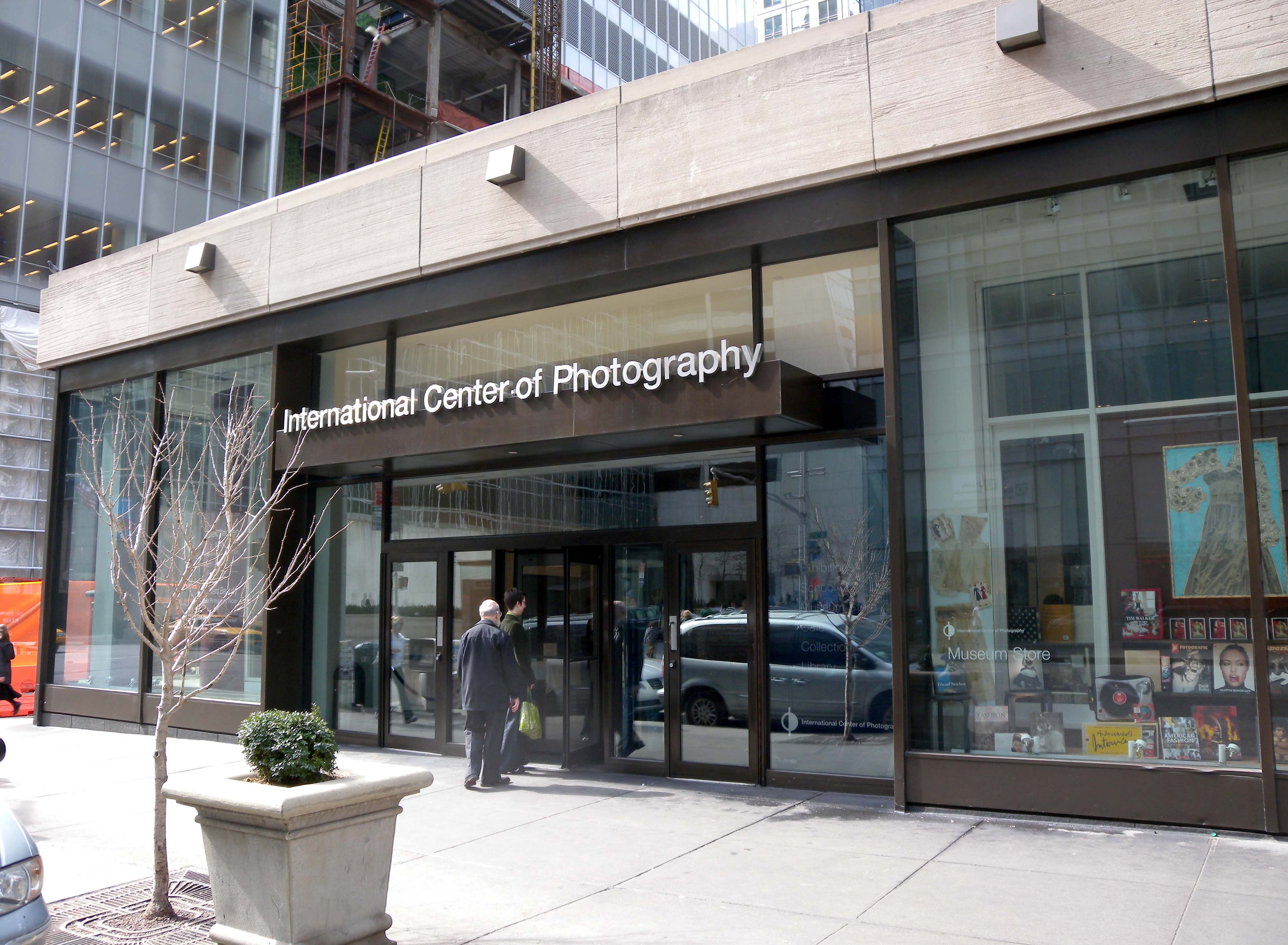 Looking West across 6th Avenue at International Center of Photography on a sunny midday.